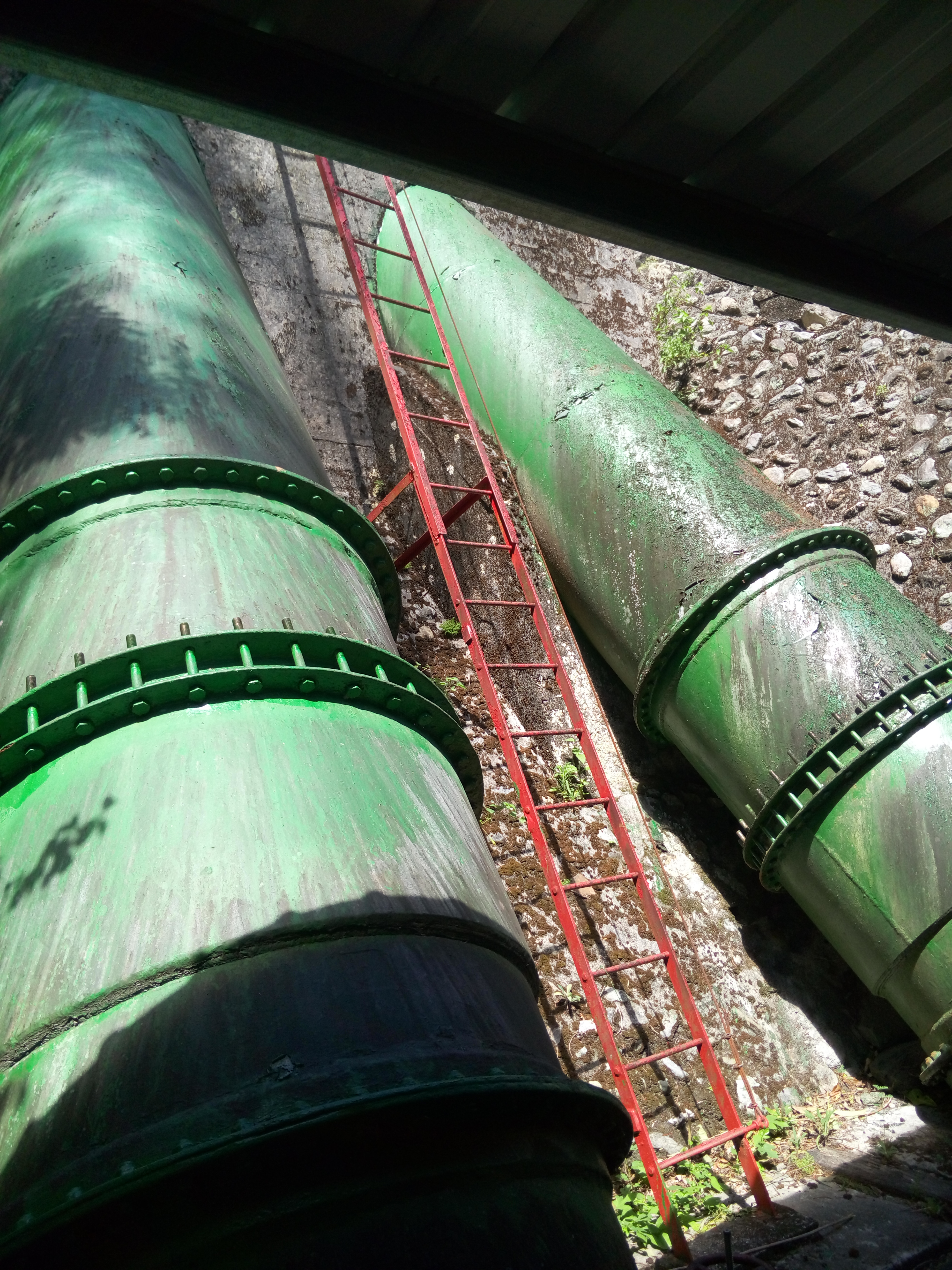 Tong-Xin Hydroelectric power plant Penstock